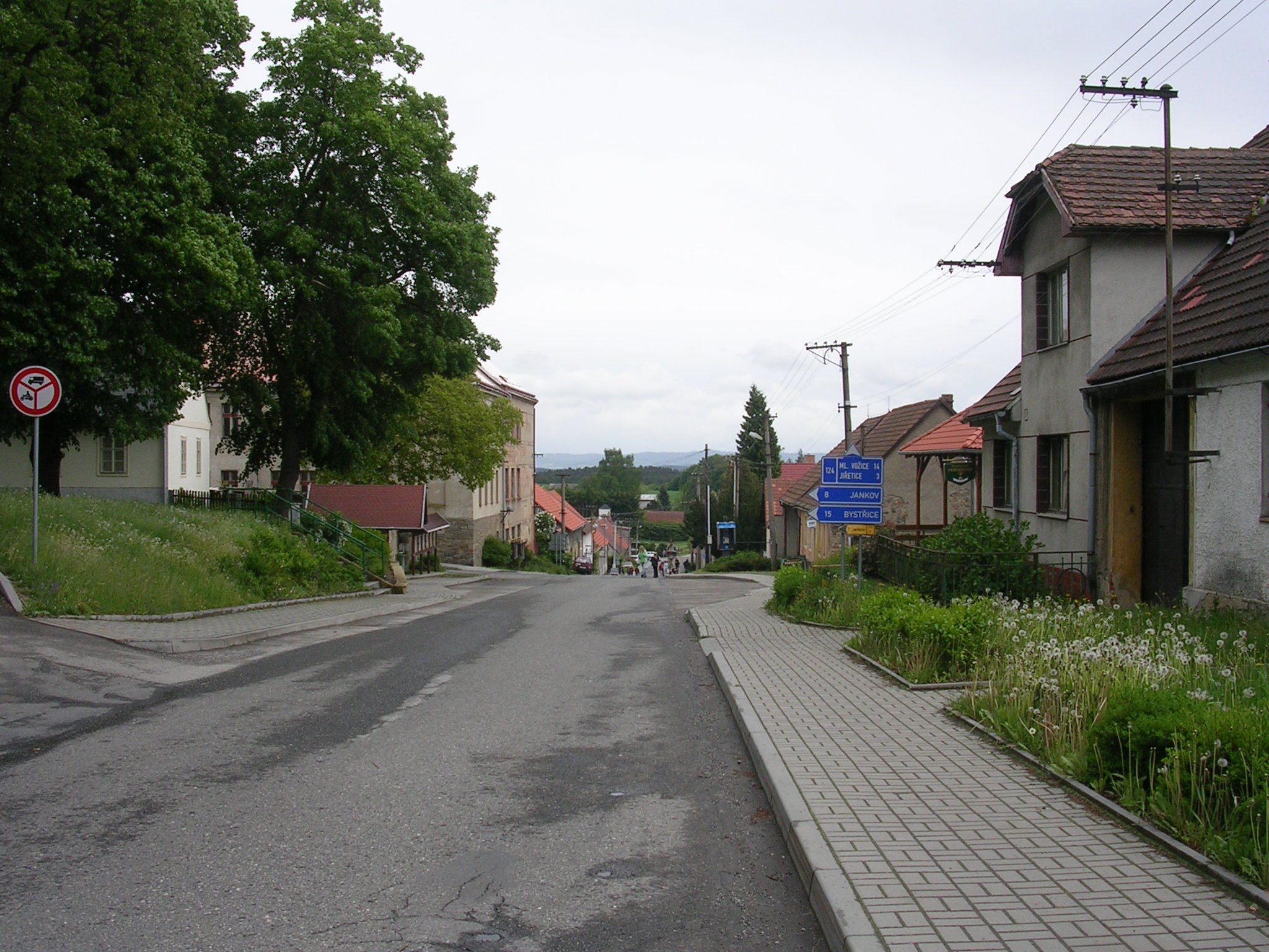 Neustupov, Benešov District, Central Bohemian Region, the Czech Republic.